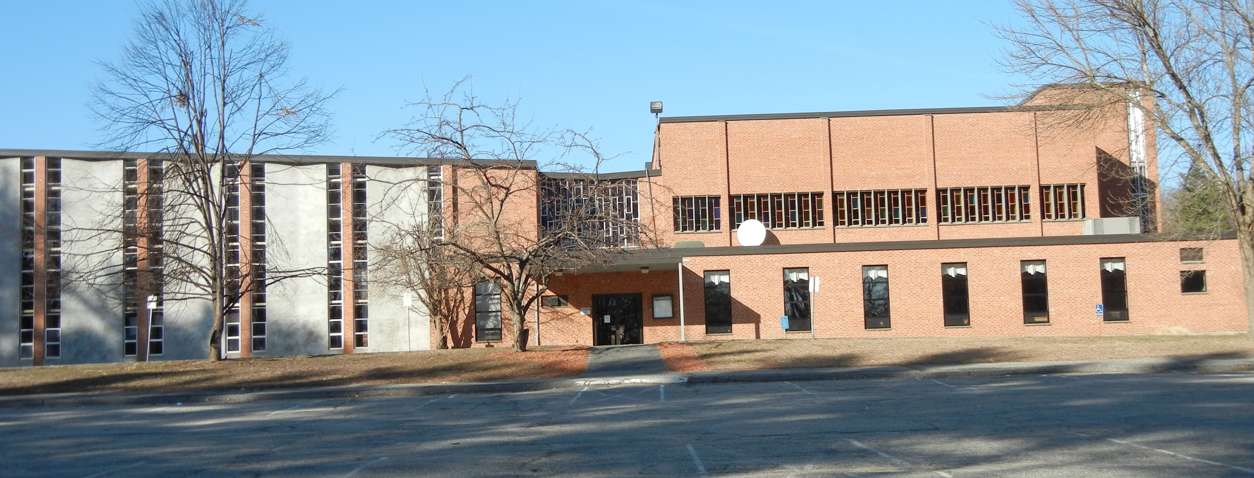 South face of Congregation Beth Israel at 15 Jamesbury Drive in Worcester, Massachusetts USA